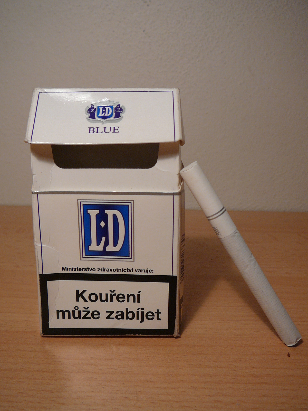 Cigarette LD